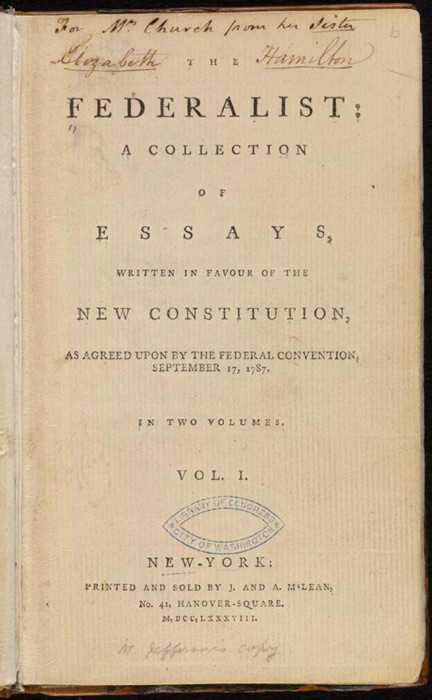 Title page of Publius (pseudonym) [Alexander Hamilton, John Jay, James Madison] (1788) The Federalist: A Collection of Essays, Written in Favour of the New Constitution, as Agreed upon by the Federal Convention, September 17, 1787. In Two Volumes. (1st ed.), New York, N.Y.: Printed and sold by J. and A. McLean, No. 41, Hanover-Square OCLC: 642792893. This copy is from the Rare Books and Special Collections Division of the Library of Congress.